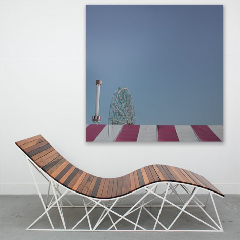 The Cyclone rollercoaster is one of Coney Island's last remaining functional rides. It is resurrected here in the form of a lounge chair, with undulating dark and light Ipe and a crisp white laser-cut metal base. Uhuru plays off the organized chaos of the ride's structure, flattened to one layer of metal, and with the sides connected sporadically to create a dynamic interchange of space and void on the base. The metal is finished with a low-VOC powder coat finish. The new Coney Island Line is crafted from reclaimed wood taken from the demolished iconic boardwalk. The Ipe wood, first installed on the boardwalk in the late 1940's, has weathered in the sun, salt, and snow for 70 years. The design is inspired by the duality of Coney Island- its whimsical, colorful summers and melancholy winters. The pieces interpret the architecture of the desolate dreamscape: low-rise buildings patched with signs and seasonal layers of paint, beneath the towering old-fashioned rollercoaster.